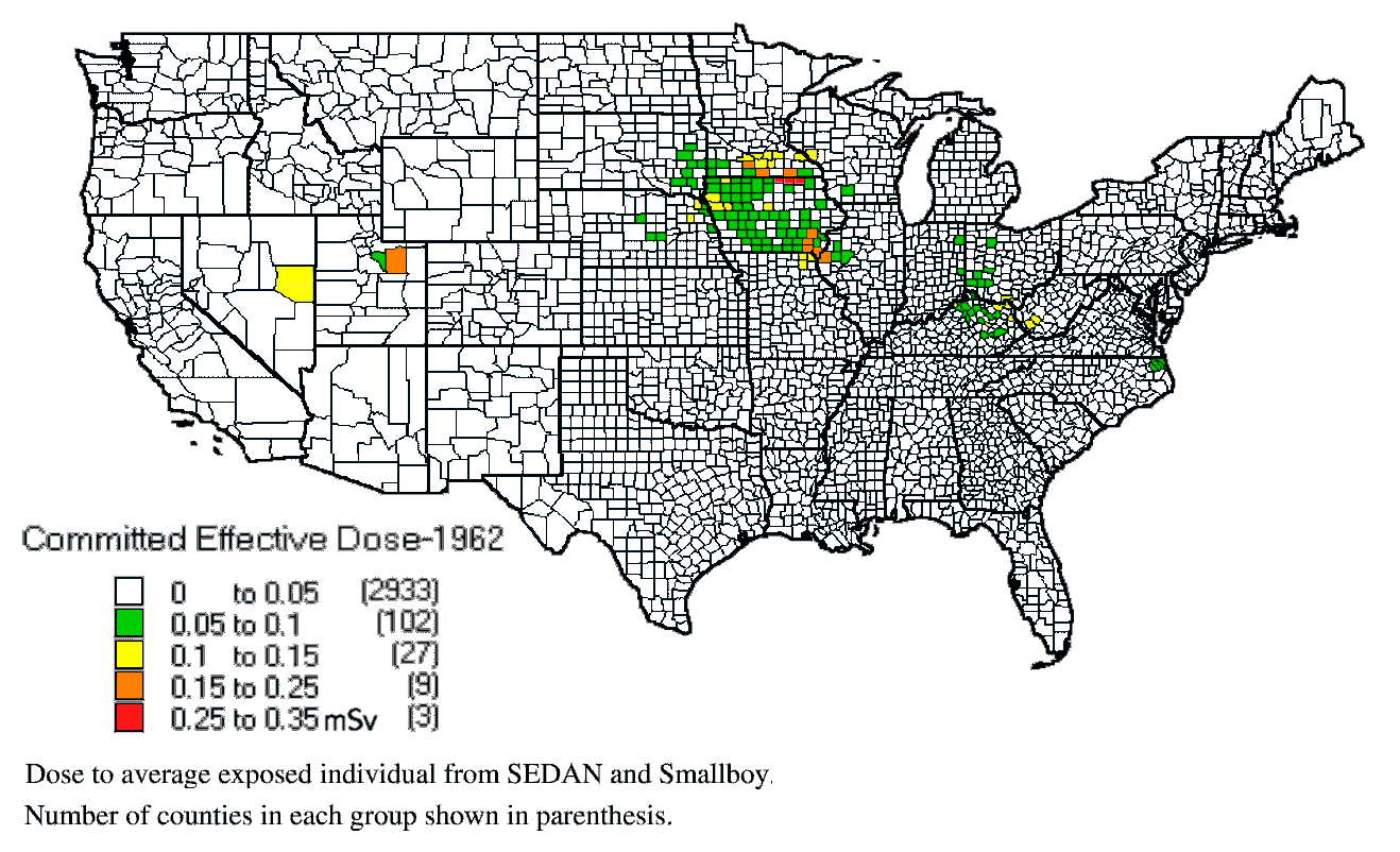 Map of US counties that suffered the highest levels of radioactive fallout from two nuclear tests in July 1962